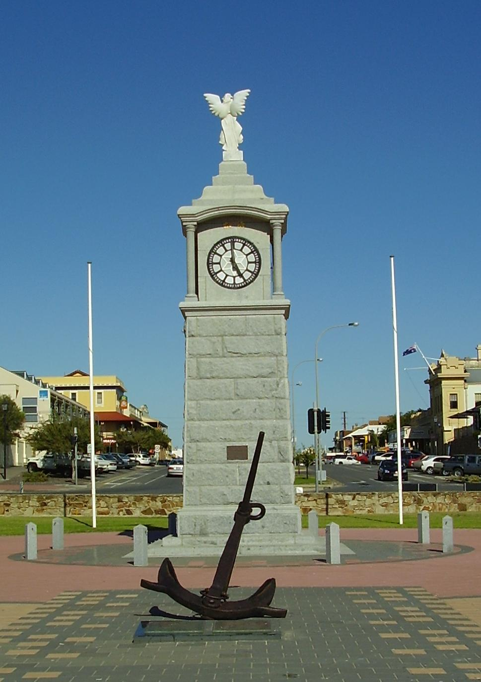 Clock memorial at Semaphore South Australia Unveiled May 25th 1925 in memorial of those who died in World War I